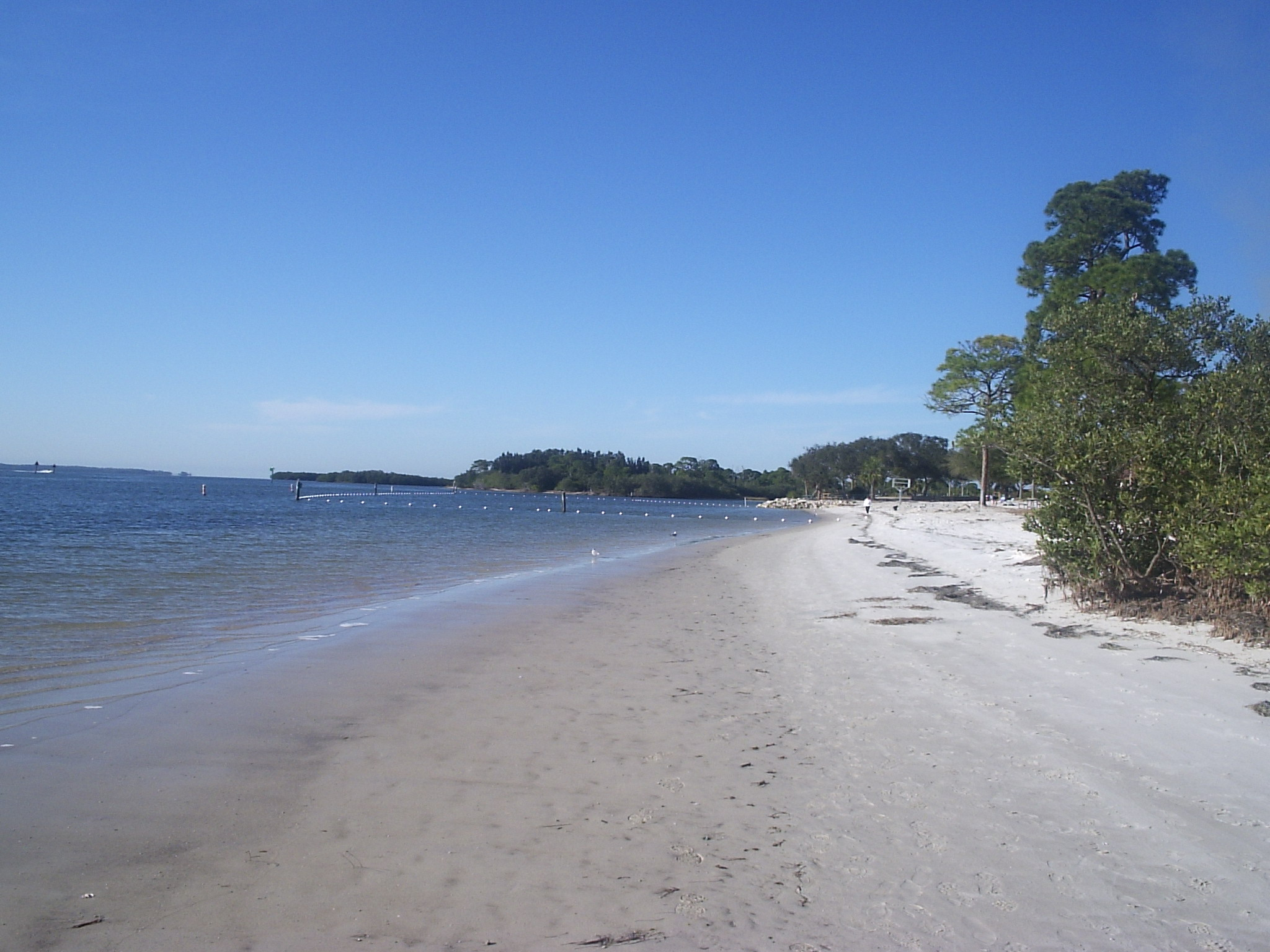 Taken by me, Mikereichold 16:11, 27 January 2006 (UTC), at Anclote River Park, a Pasco County park, Pasco County, Florida. Picture shows southern beach area along the Anclote River.